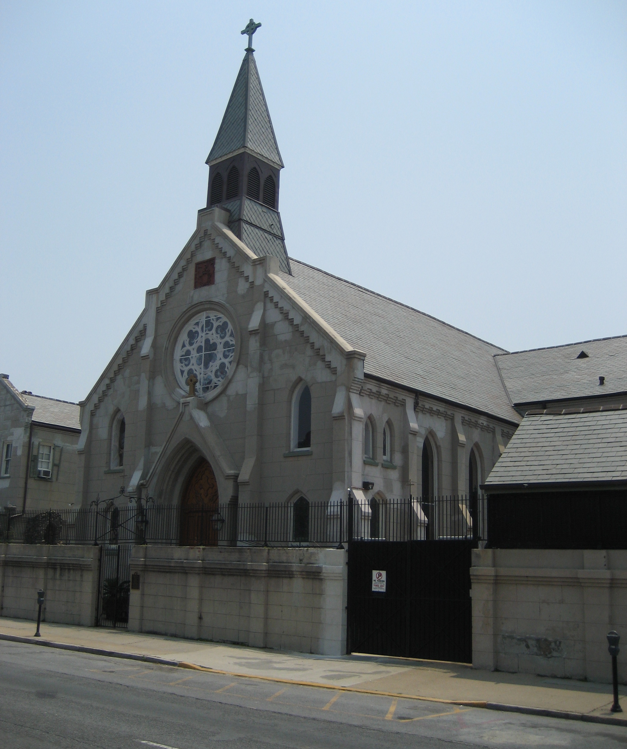 Church, Rampart Street at back of French Quarter, New Orleans. The Center of Jesus the Lord formerly Carmelite Chapel of St. Joseph and St. Teresa the Carmelite Monastery.